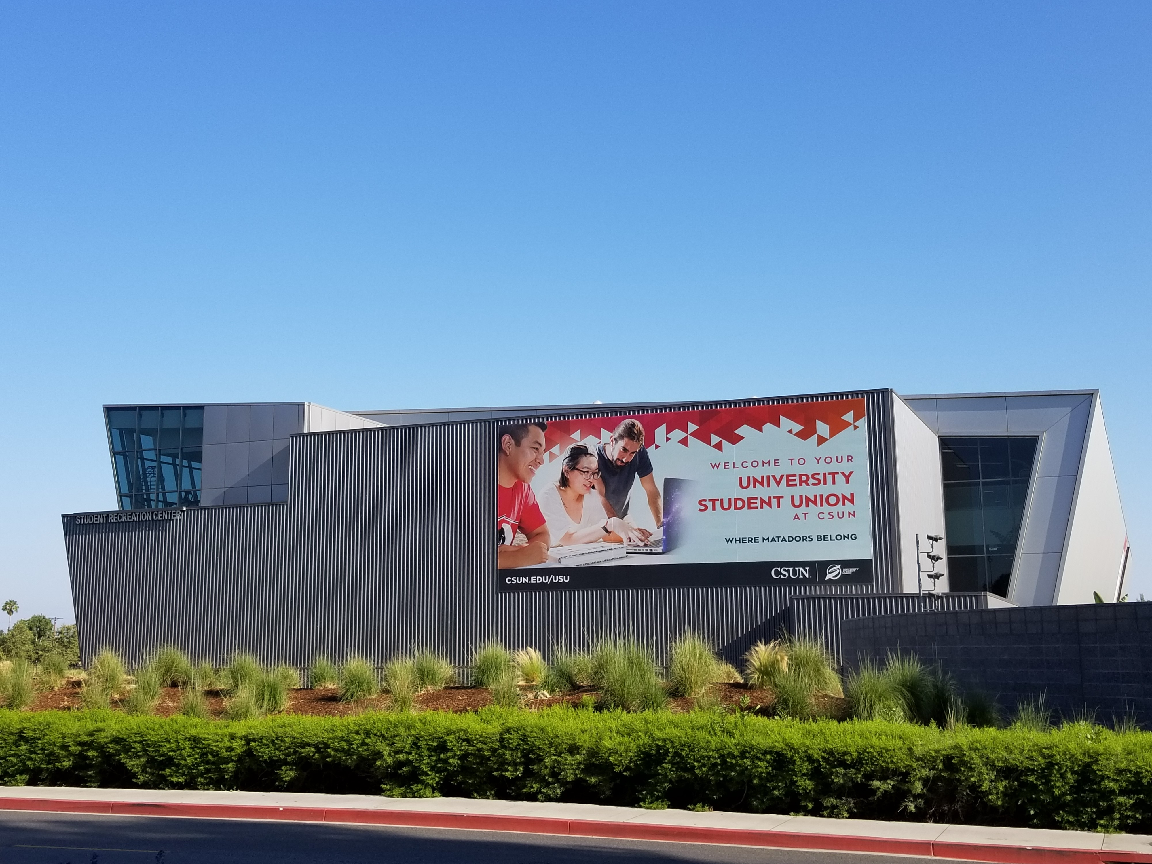 Student Recreation Center (Cal State, Northridge)